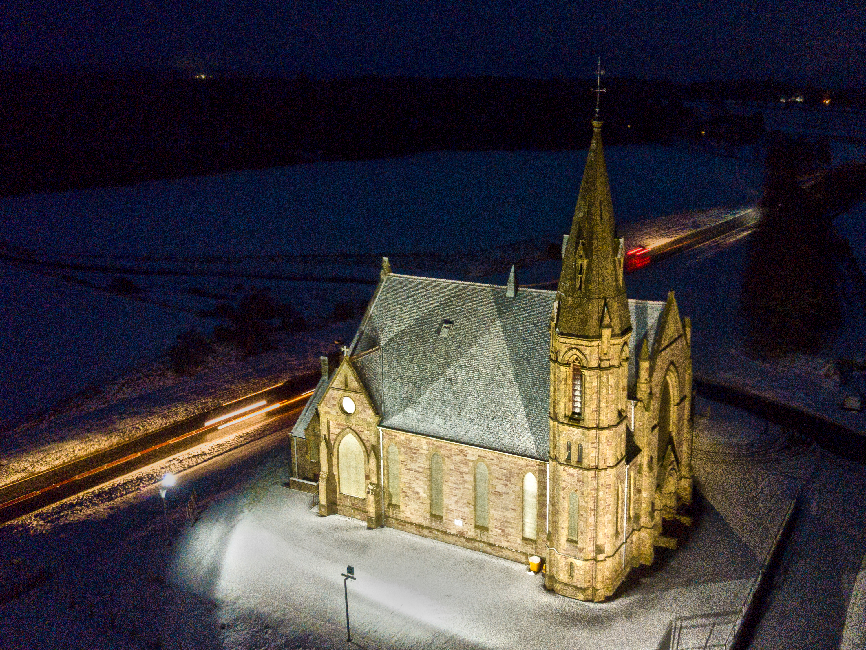 Aerial photography taken with a Mavic Pro UAV (drone), published with the title "Rosskeen Free Church".